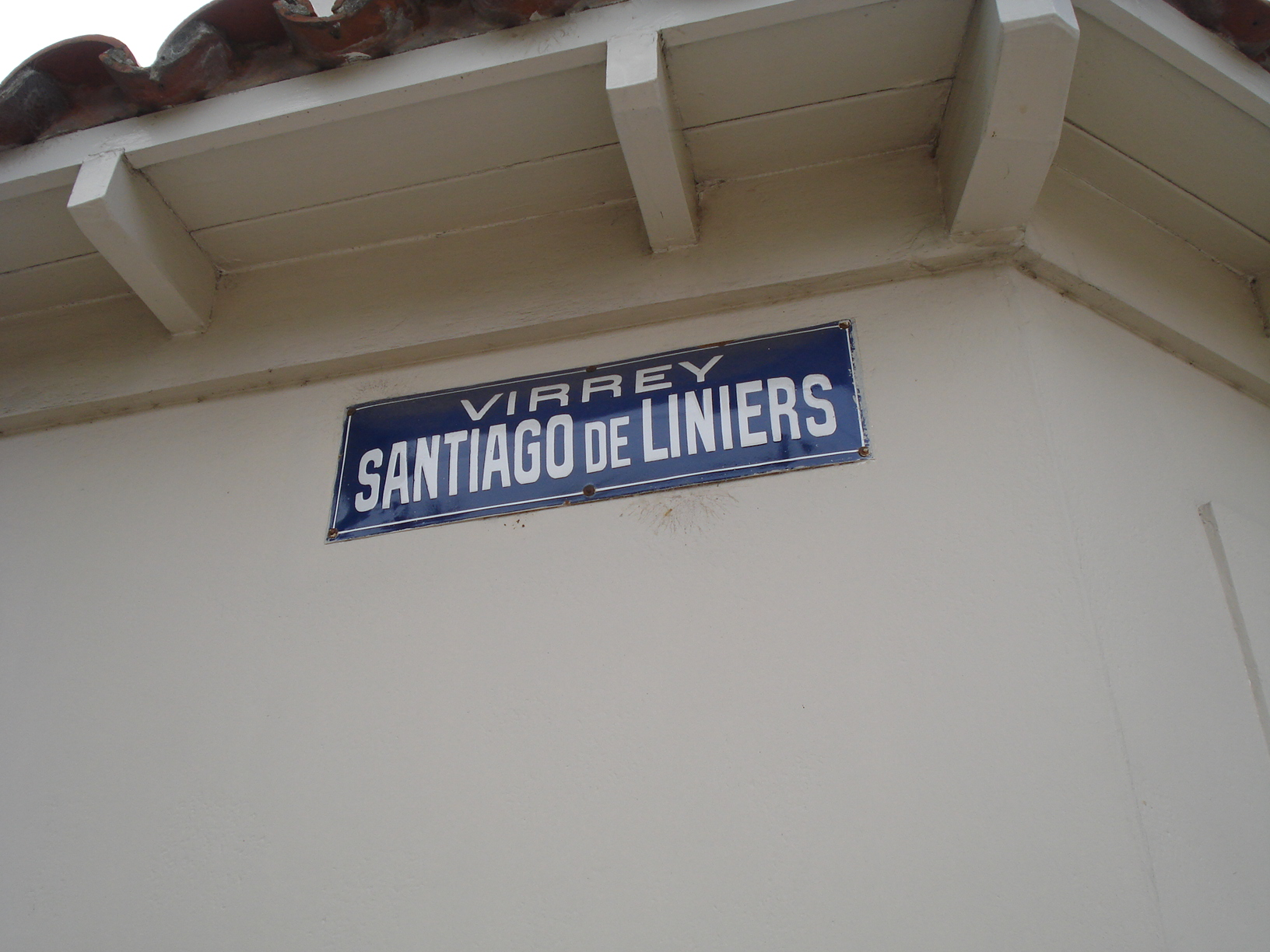 Virrey Santiago de Liniers Street in Florida, Vicente López, Argentina.